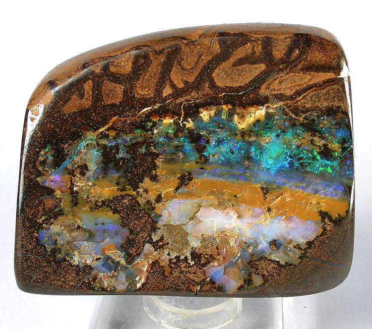 Opal (Var.: Boulder Opal) Locality: Quilpie, Queensland, Australia (Locality at ) Size: 7.8 x 6.3 x 2.4 cm. Lightning Ridge opal is world-renowned for quality and color and this slabbed and polished section of boulder opal is a striking example. This is a vintage specimen of "precious opal" in matrix. The polished color play of peacock blues, greens and whites is absolutely spectacular against the variably brown matrix. Weighs 180 grams or 900 carats. Ex. Duncan Elliott Collection.